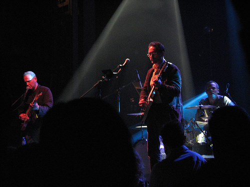 The Sea and Cake